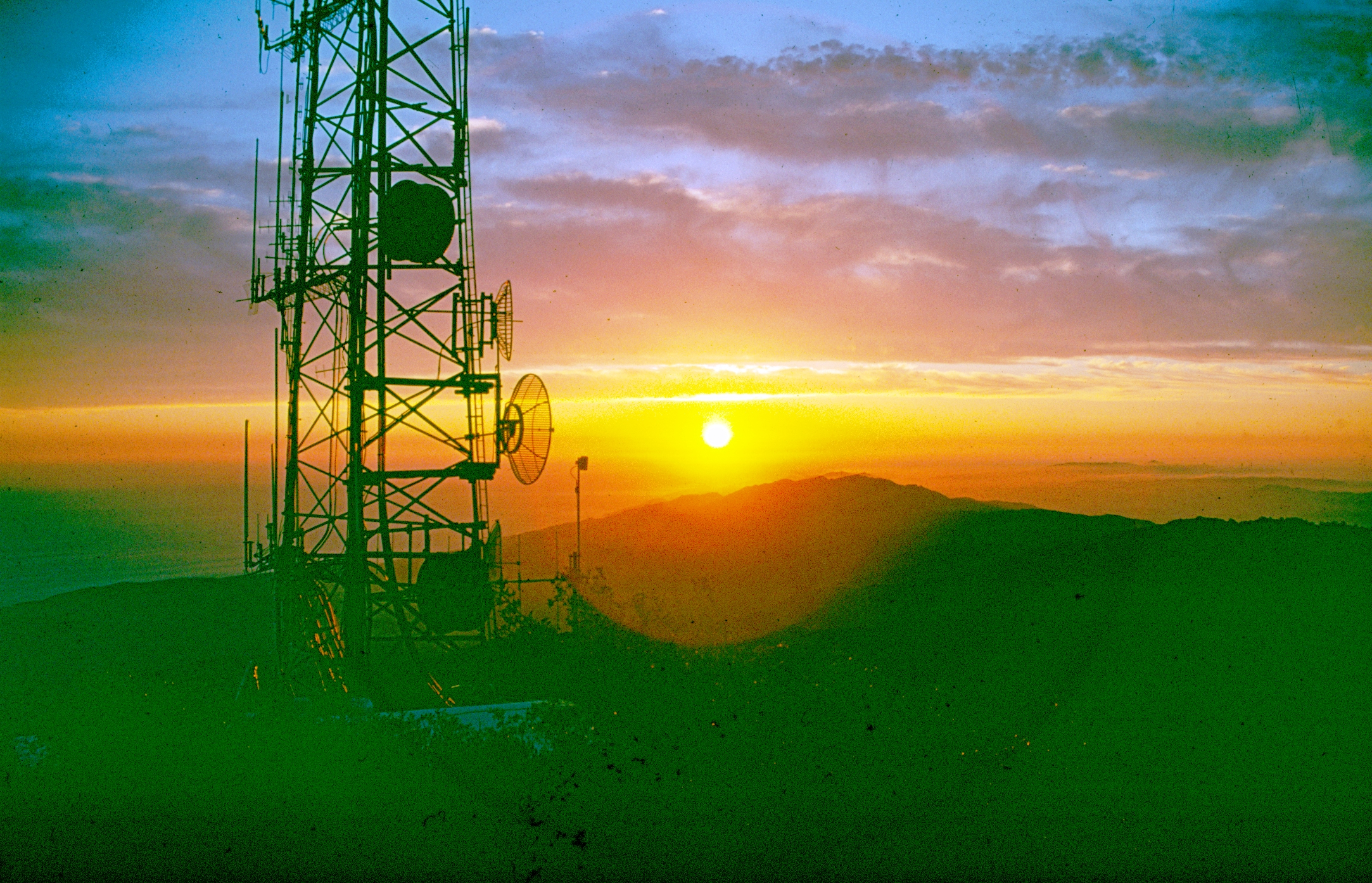 This is the view from the very top of Santa Ynez Peak looking West.